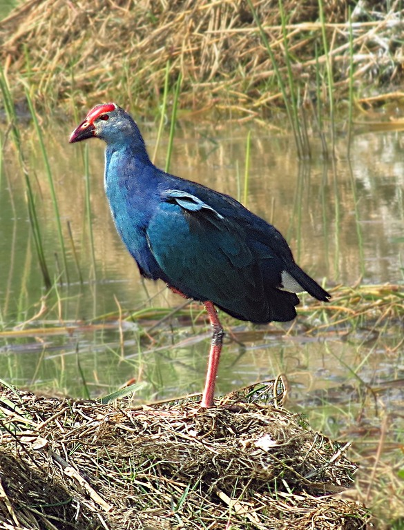 At Mangalajodi, Odisha, India on 29-12-2012 Nature, fauna, birds of Odisha (previously Orissa), India